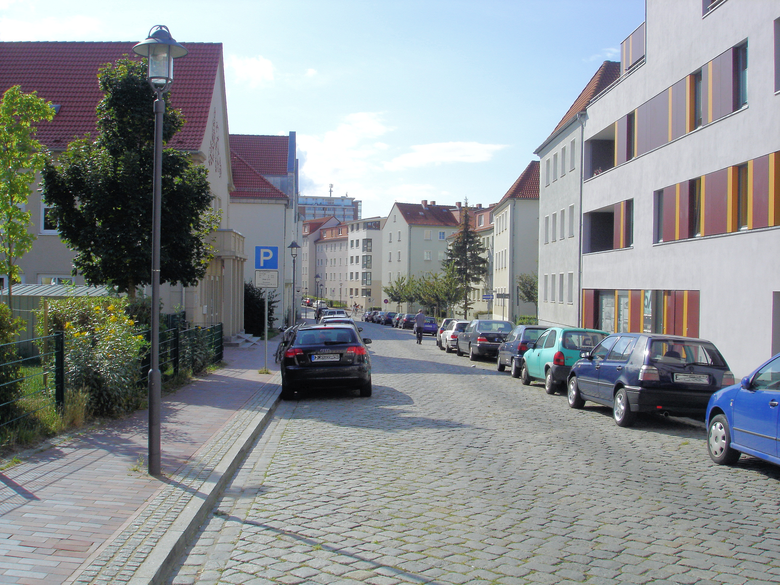 Street in the historic city of Rostock